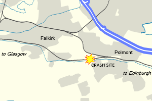 Map of the Polmont rail accident site. This image is derived from Falkirk UK location map.svg and was edited using .